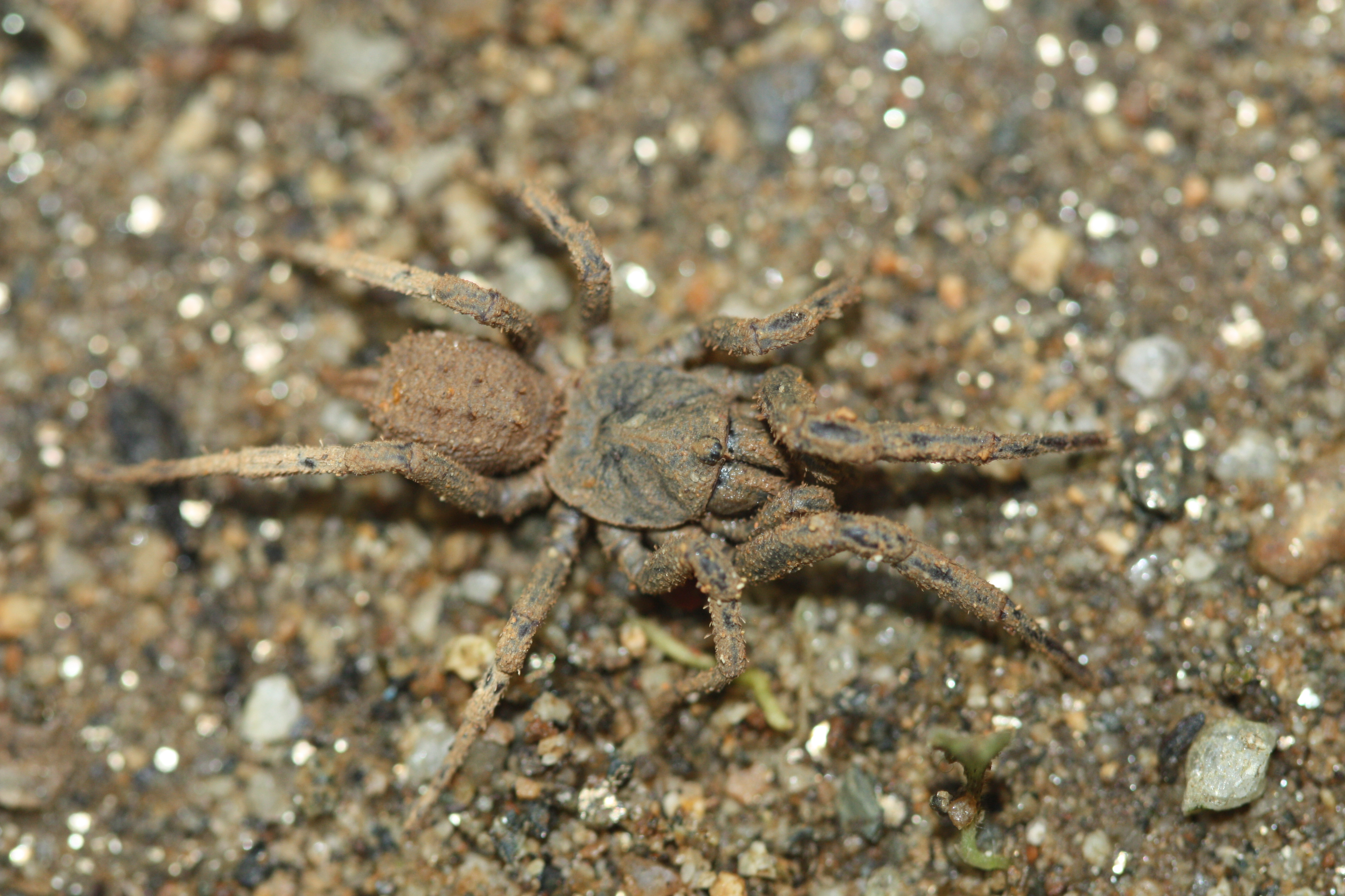 Paratropididae, unknown genus and species. Found august 2011 in northern honduras, near Pico Bonito National Park. In damp soil embankment during night walk. Collector and photographer, Stuart Longhorn